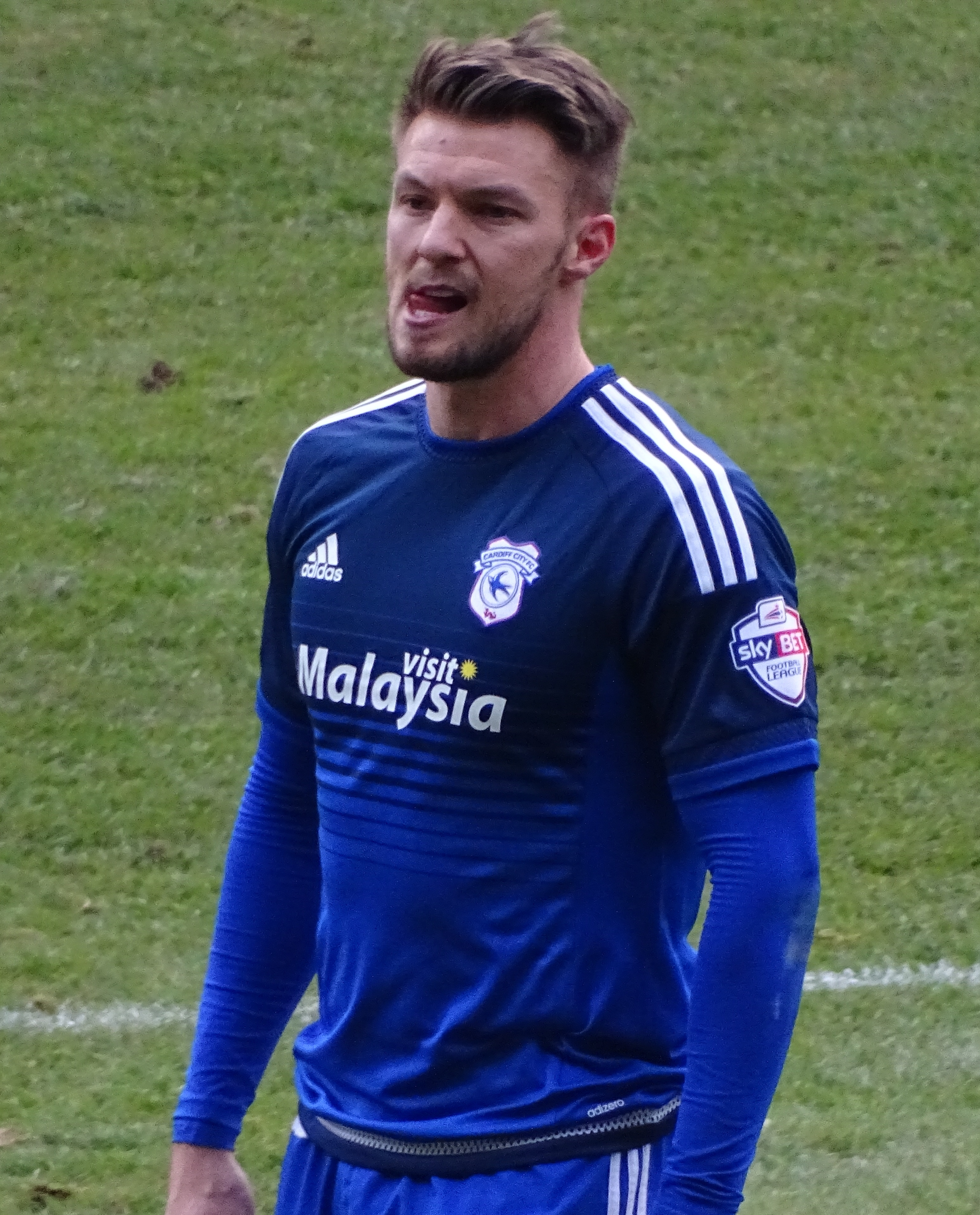 Footballer Anthony Pilkington playing for Cardiff City.